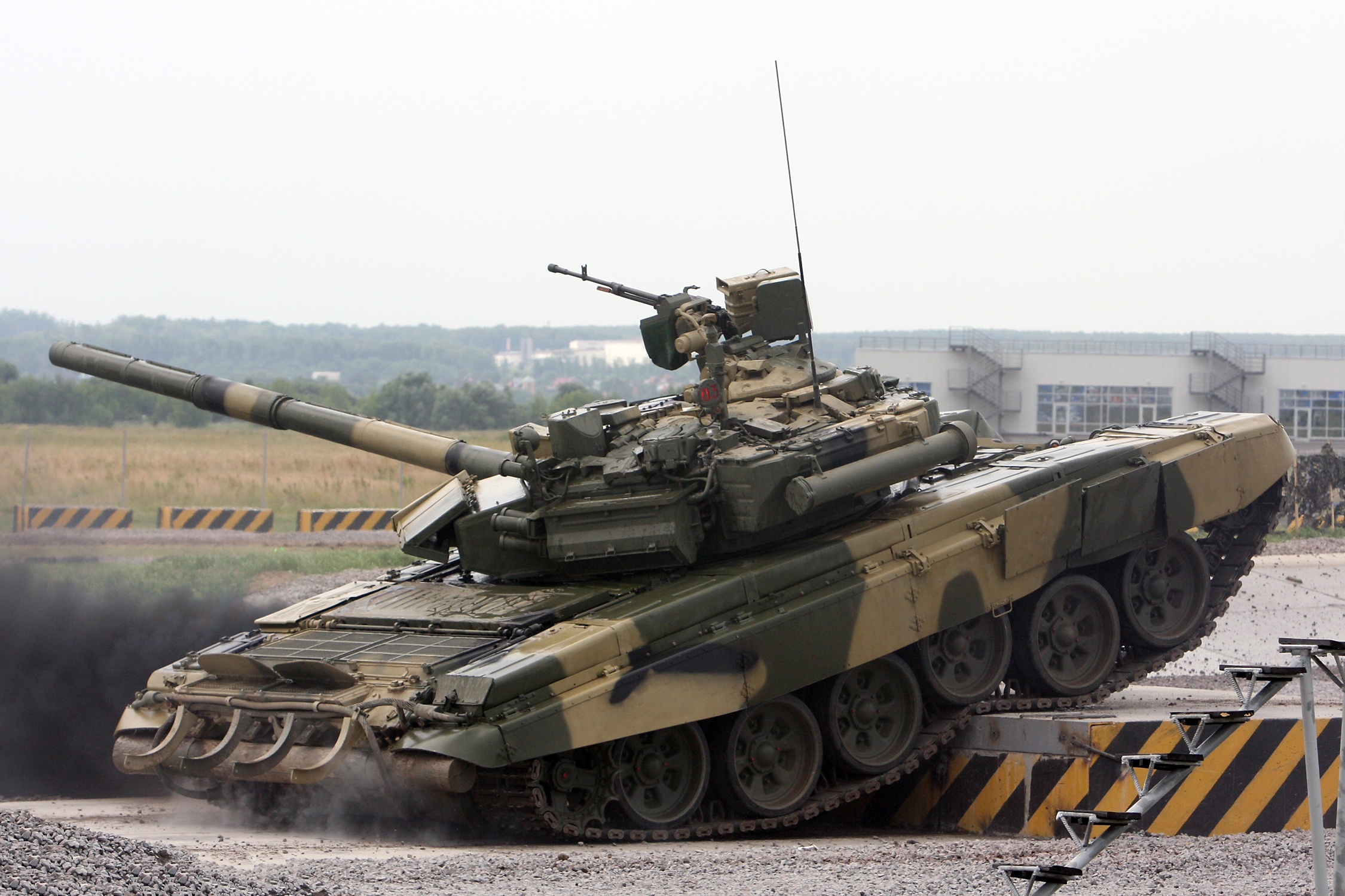 T-90S during a vehicle demonstration at the Engineering Technologies 2010 international forum in Russia.